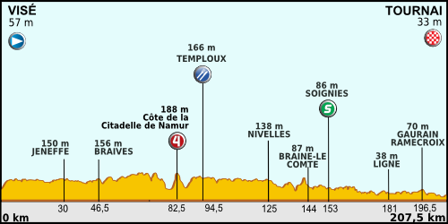 Profil of the 2nd stage of the Tour de France 2012